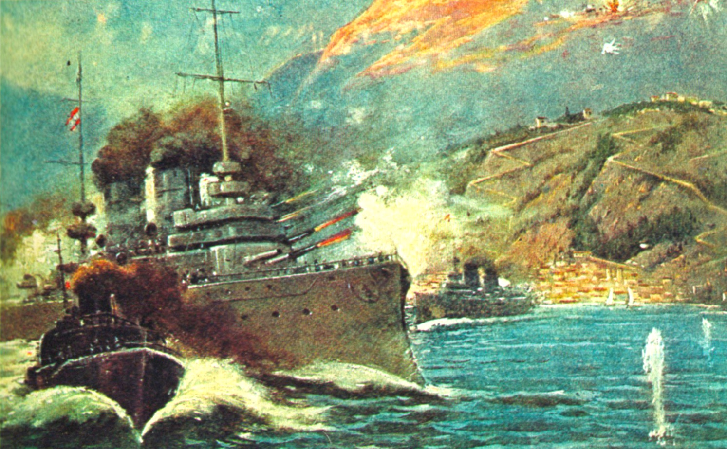 Austrian-Hungarian navy attacks Montenegro from the Kotor mouths, 10-10-1914